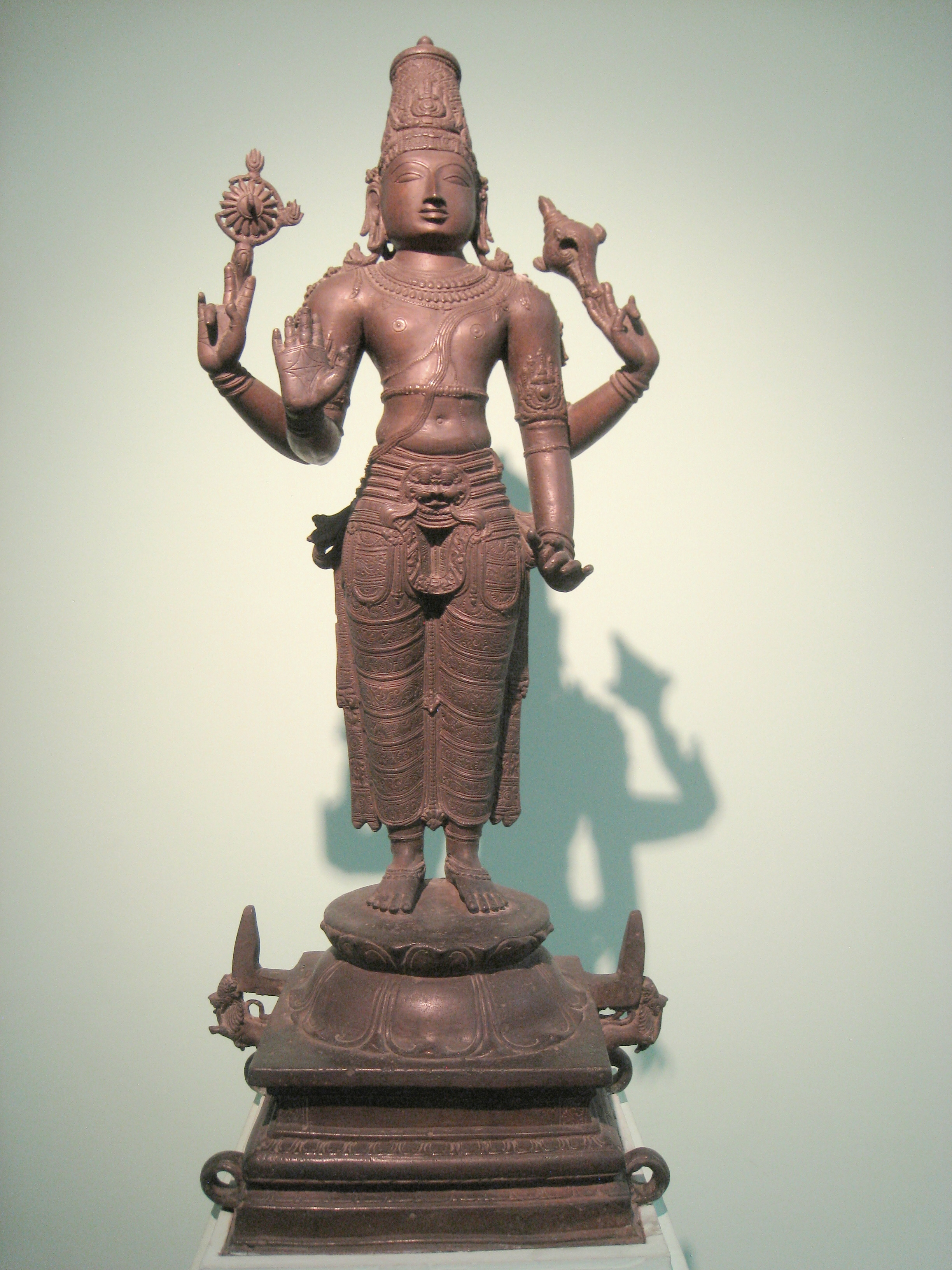 Bronze sculpture in National Museum, New Delhi, India.